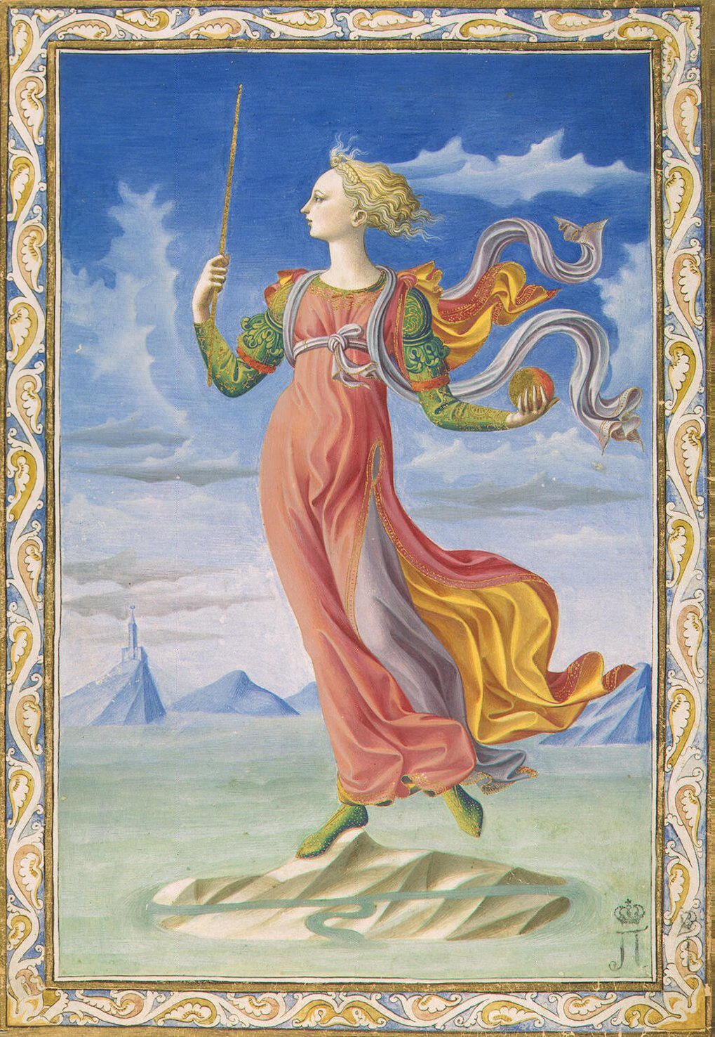 Illustration for the manuscript De Secundo Bello Punico Poema by Silius Italicus